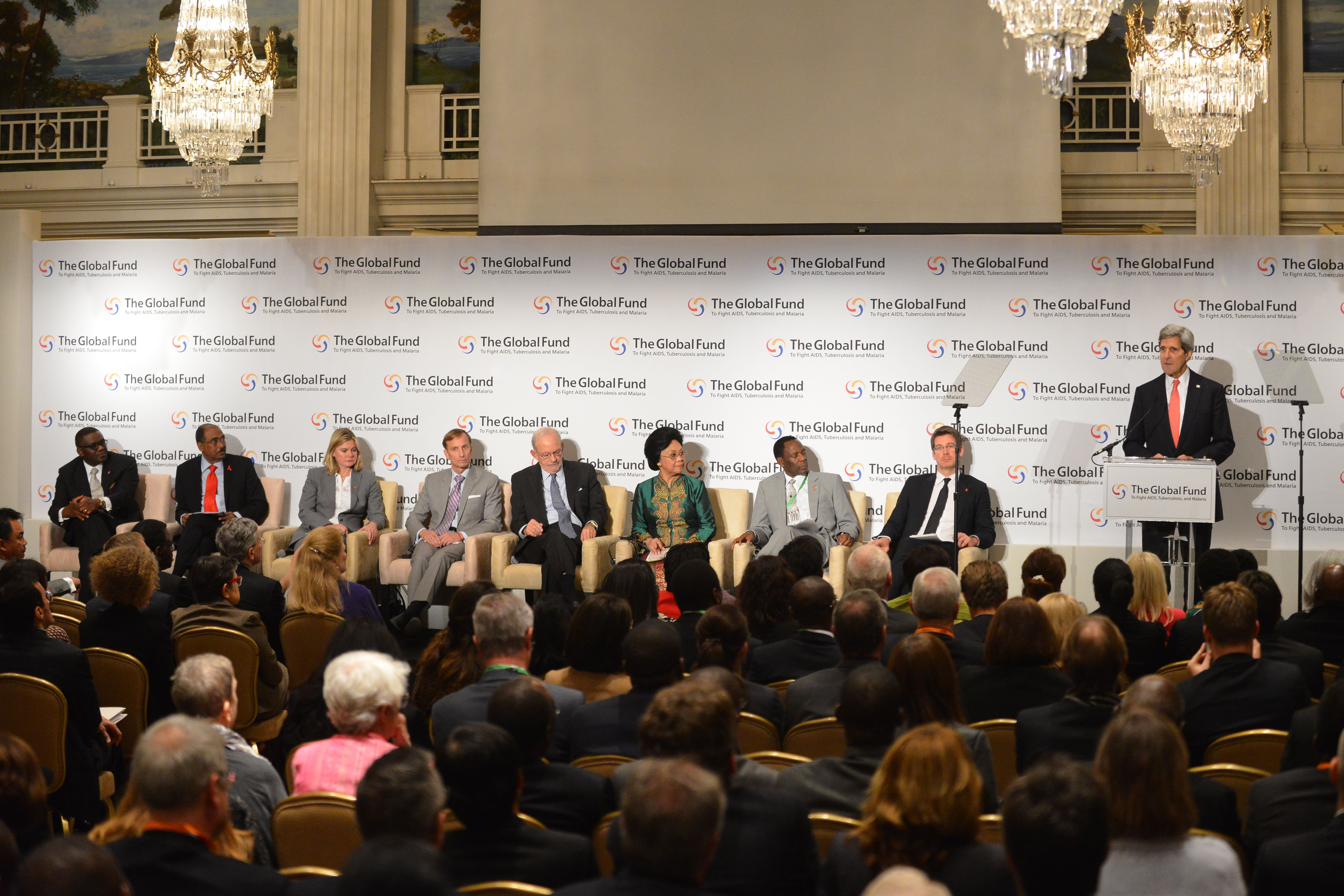 U.S. Secretary of State John Kerry delivers remarks at the Partnership Symposium of the Global Fund’s Fourth Replenishment Conference in Washington, D.C., on December 2, 2013. [State Department photo/ Public Domain]